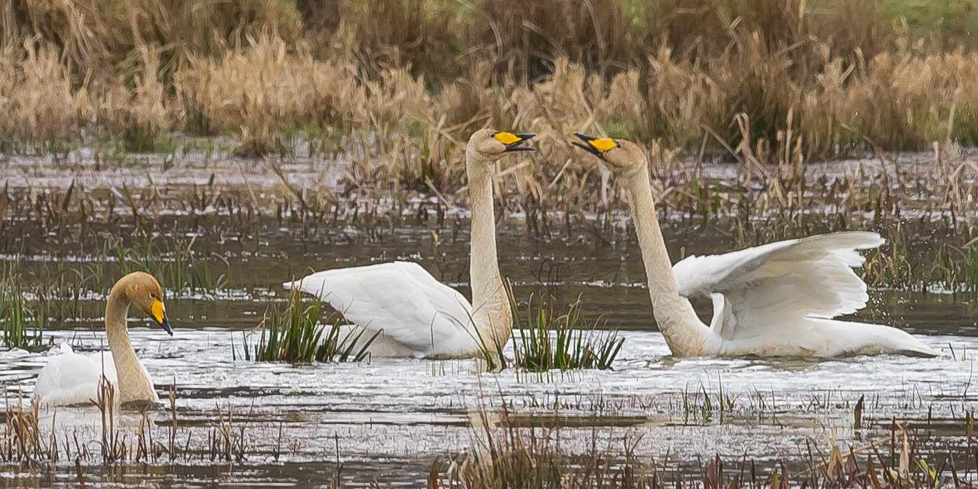 Sångsvan, Whooper svan, Cygnus cygnus, around Stockholm, Sweden